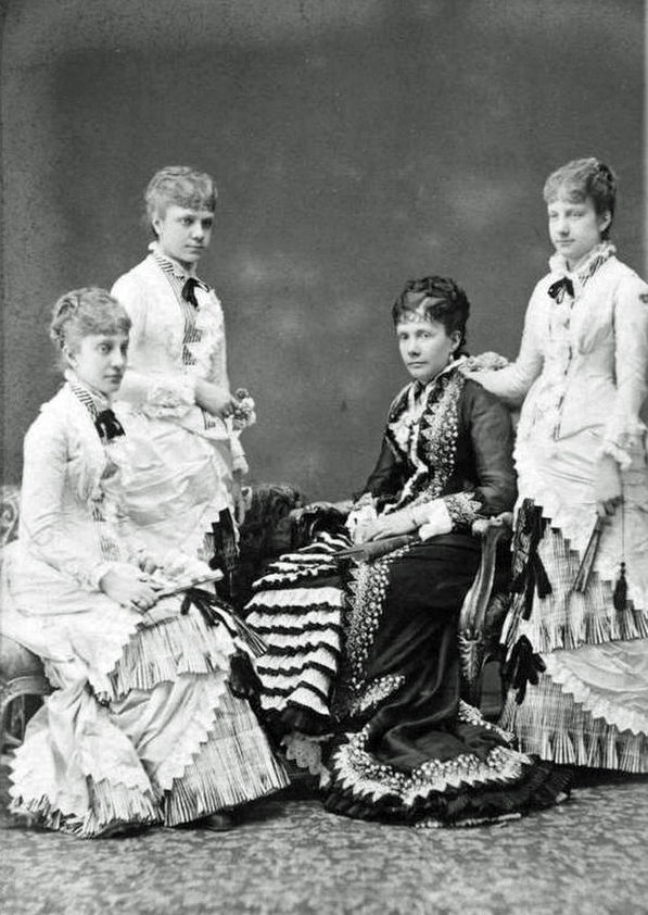 The four Daughter of Queen Isabella II of Spain